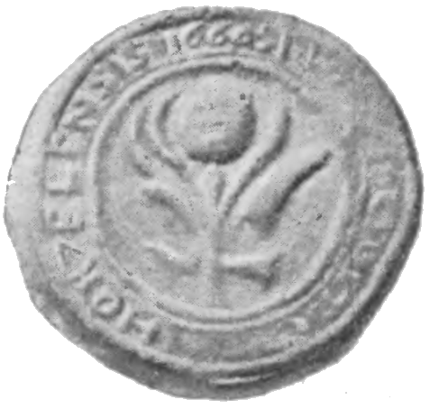 Seal of town of Chorzele from XVII century